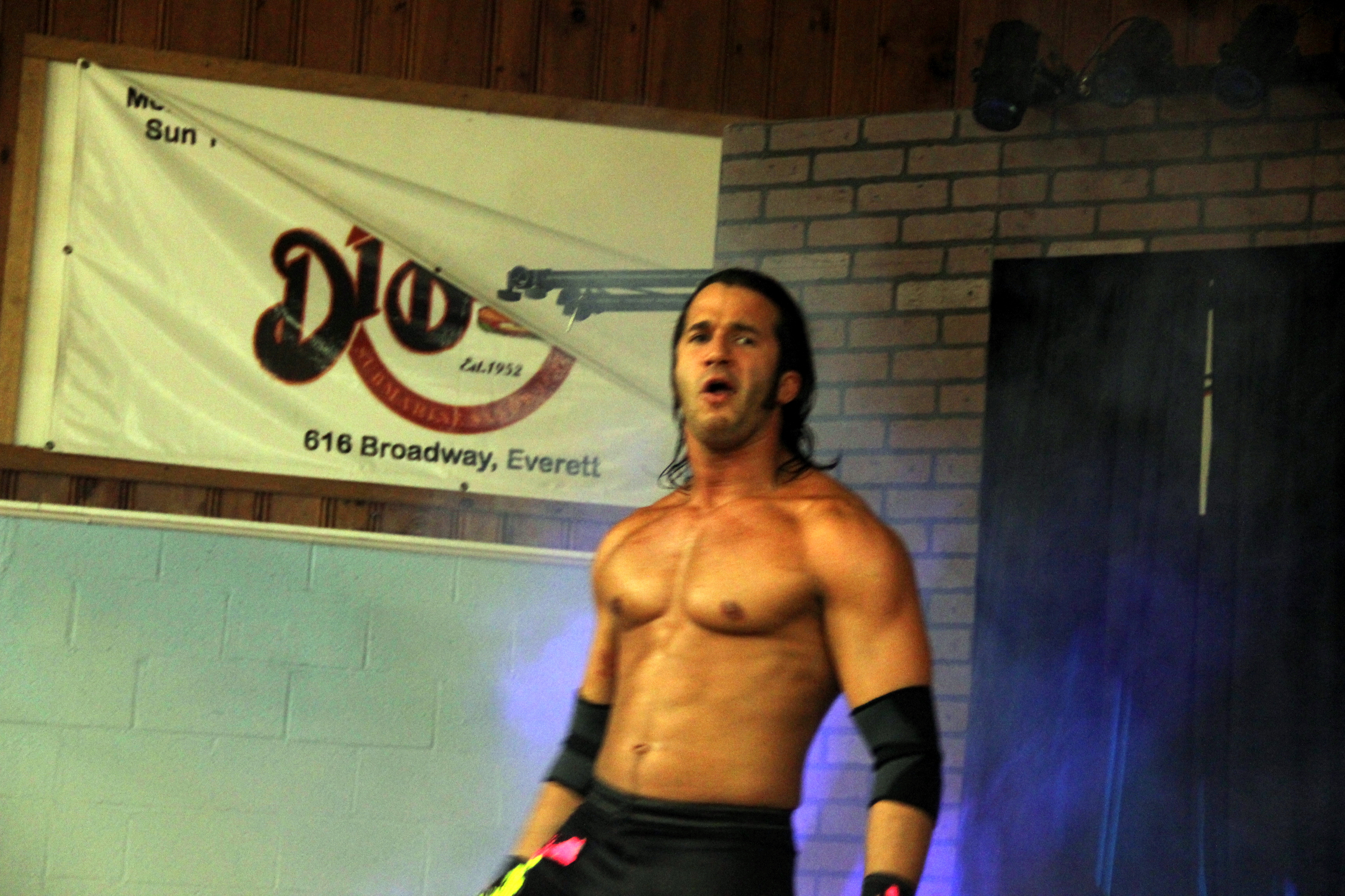 trent in an indy event